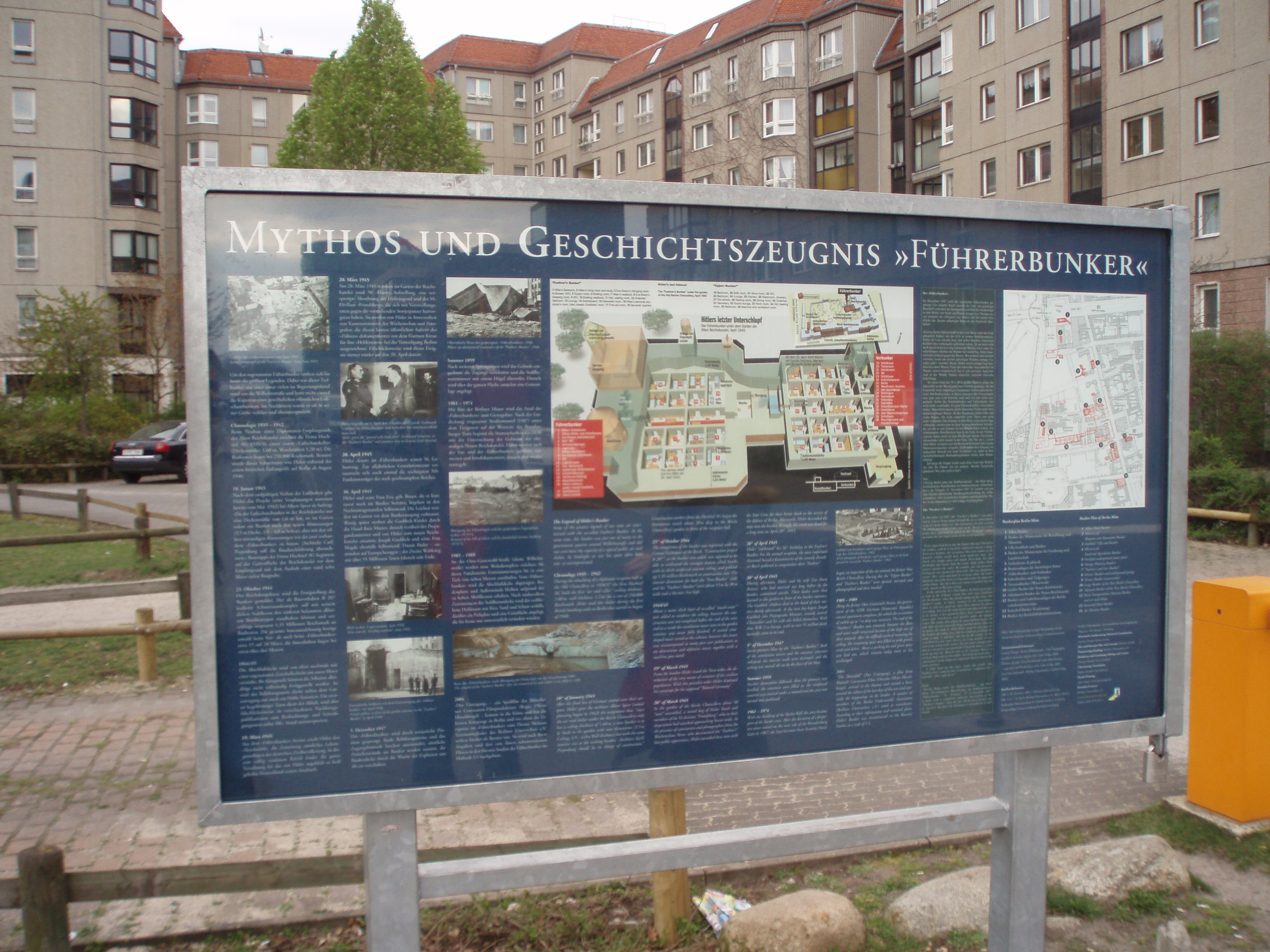 Place of Hitler's Bunker in 2007, Place marked by German government